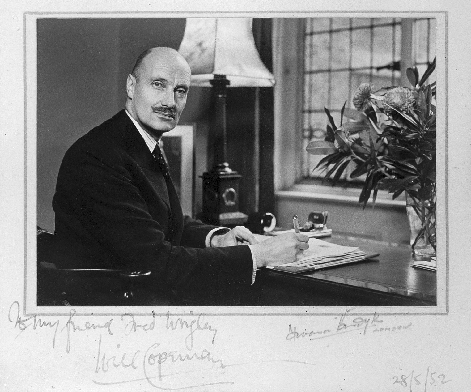 Portrait of William Copeman, seated at desk, with autograph inscription by sitter to F. Wrigley Iconographic Collections Keywords: William Sydney Charles Copeman; V. van Dyck